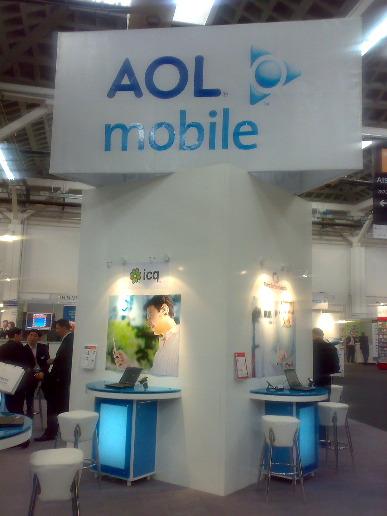 AOL Mobile stand at GSMA Barcelona 2008